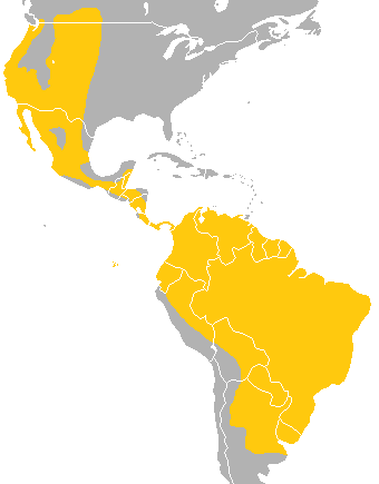 Range of Lasiurus blossevillii.